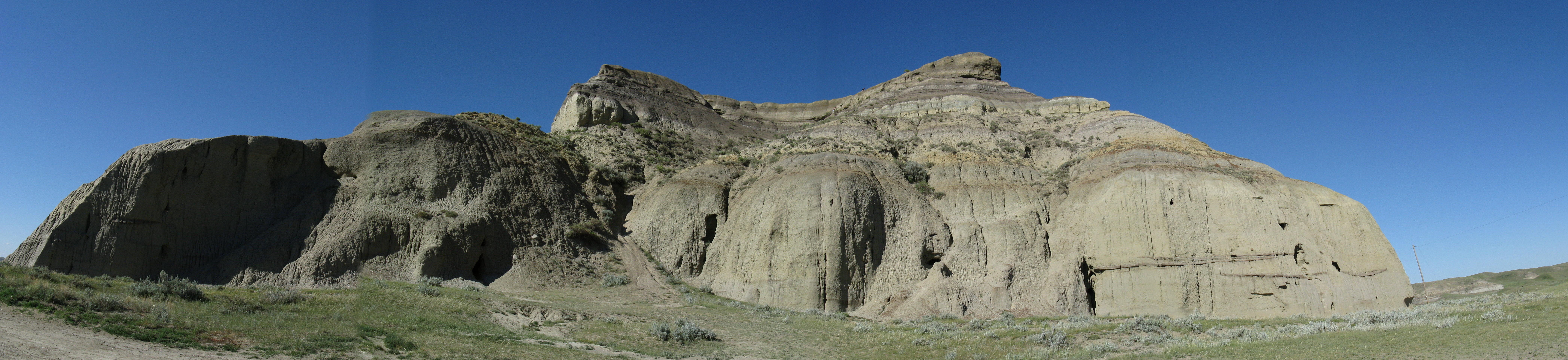 A little better than my last panorama. I hope it helps to give you a feel of how large this sandstone butte is. This butte is hidden in the Big Muddy, near the border between Saskatchewan and the States.